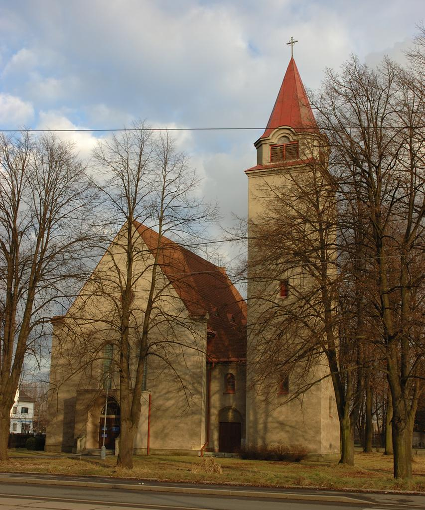 The Greek Catholic church of Saint Anthony of Padua, Ostrava-Kunčičky, Czech Republic